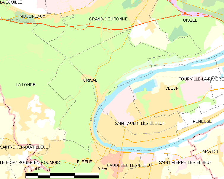 Map of French municipality Orival